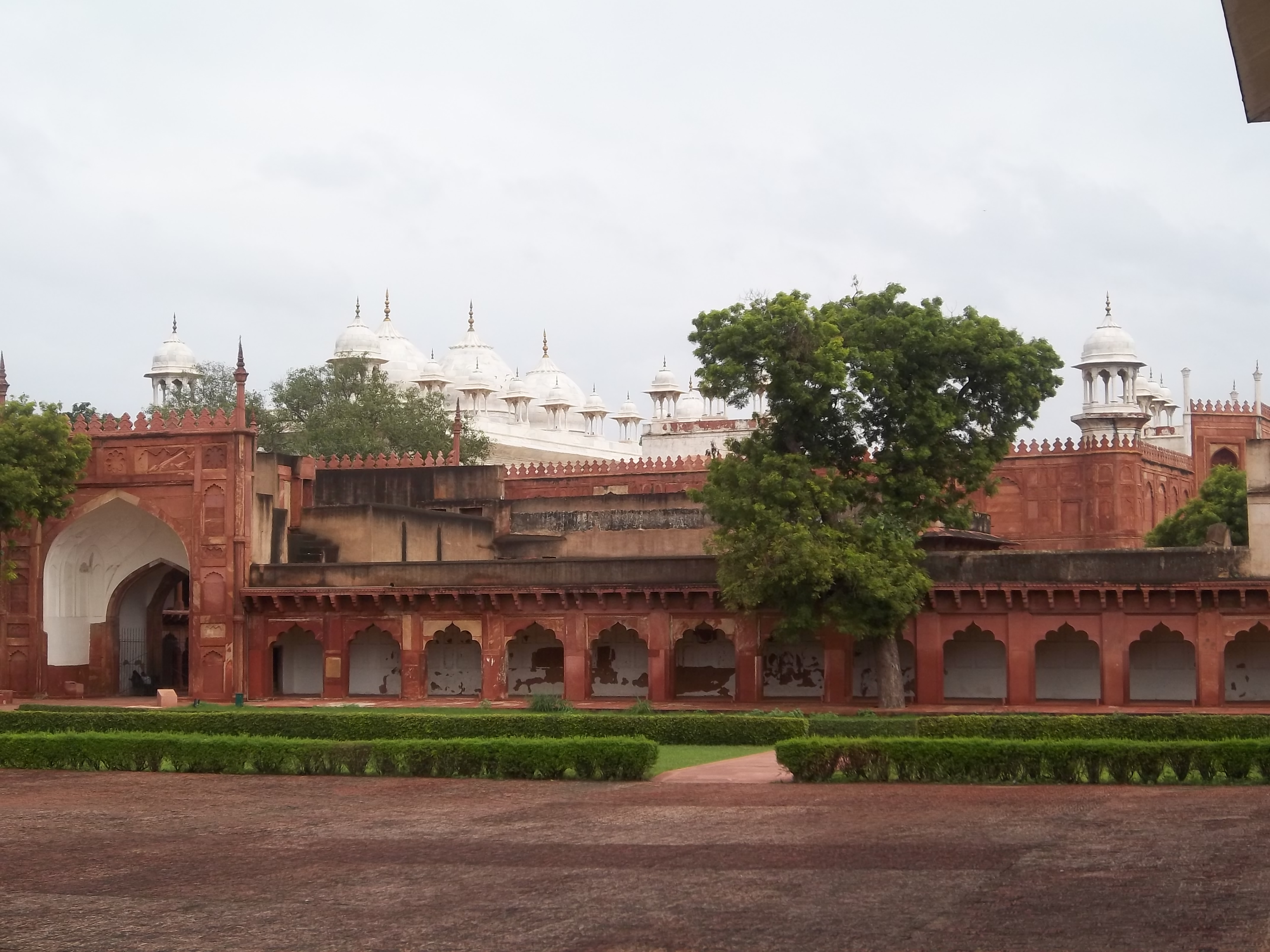 The Moti Masjid in Agra was built by Shah Jahan. During the rule of Shah Jahan the Mughal emperor, numerous architectural wonders were built. Most famous of them being the Taj Mahal. Moti Masjid earned the epithet Pearl Mosque for it shined like a pearl. It is held that this mosque was constructed by Shah Jahan for his members of royal court.Moti Masjid's architectural features are quite similar to that of the Saint Basil's Cathedral in Moscow. It stands on ground that slopes from east to west to the north of Diwan-i-Am complex in Agra Fort.